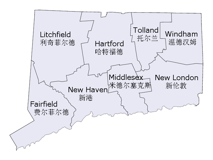 A map of the counties of Connecticut in English and Chinese.